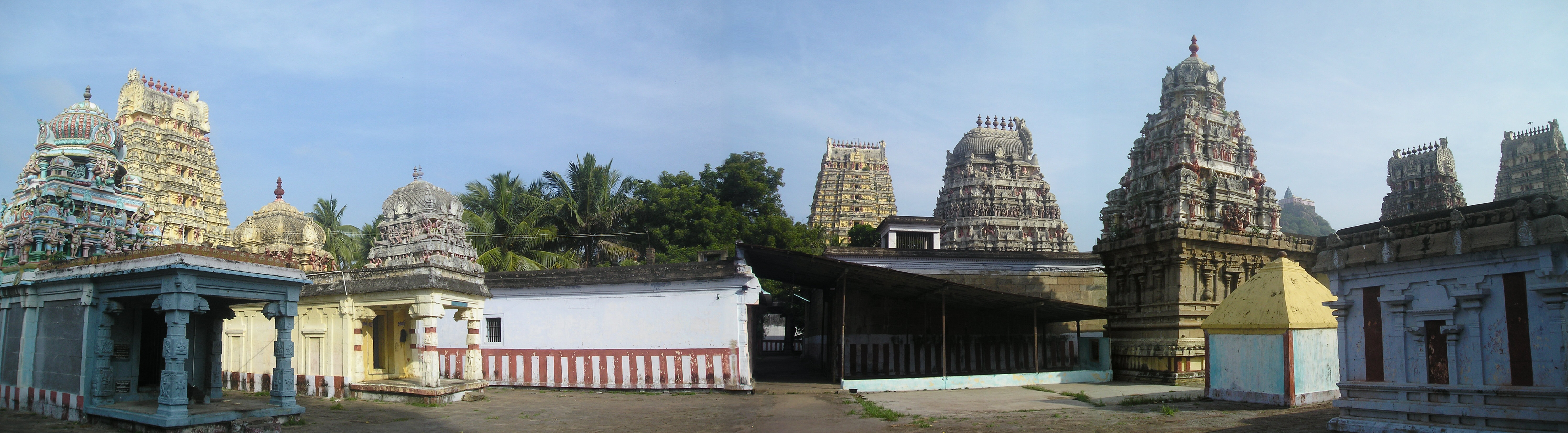 Tirukalukundram3.jpg